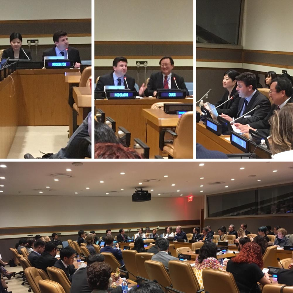 In 2018, IAFOR collaborated with the United Nations in the hosting of a special session at the Third Annual Multi-stakeholder Forum on Science, Technology and Innovation for the Sustainable Development Goals (STI Forum 2018) at the United Nations Headquarters in New York. The Chair of the meeting was Japanese Ambassador to the United Nations, His Excellency Dr Toshiya Hoshino.